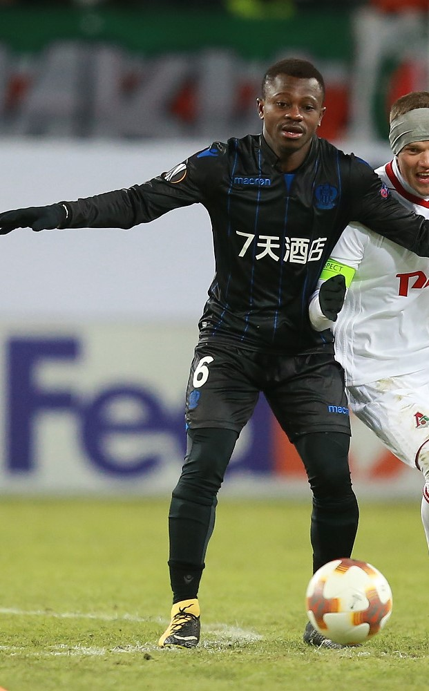 Jean Seri